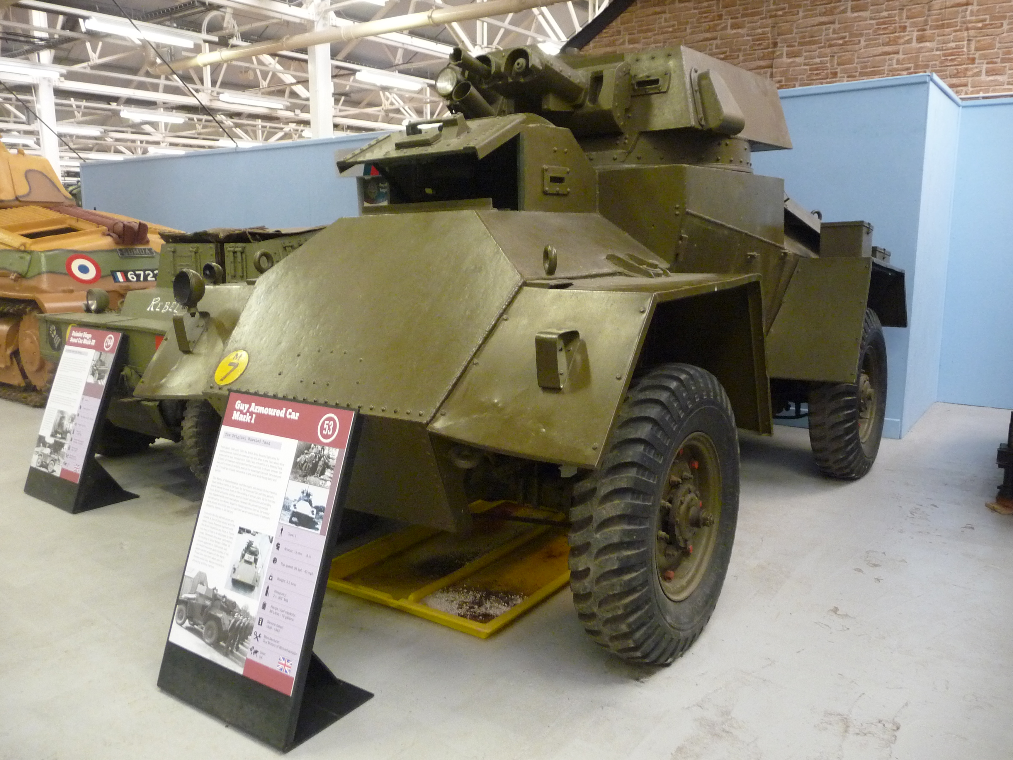 Guy Armoured Car Mark I